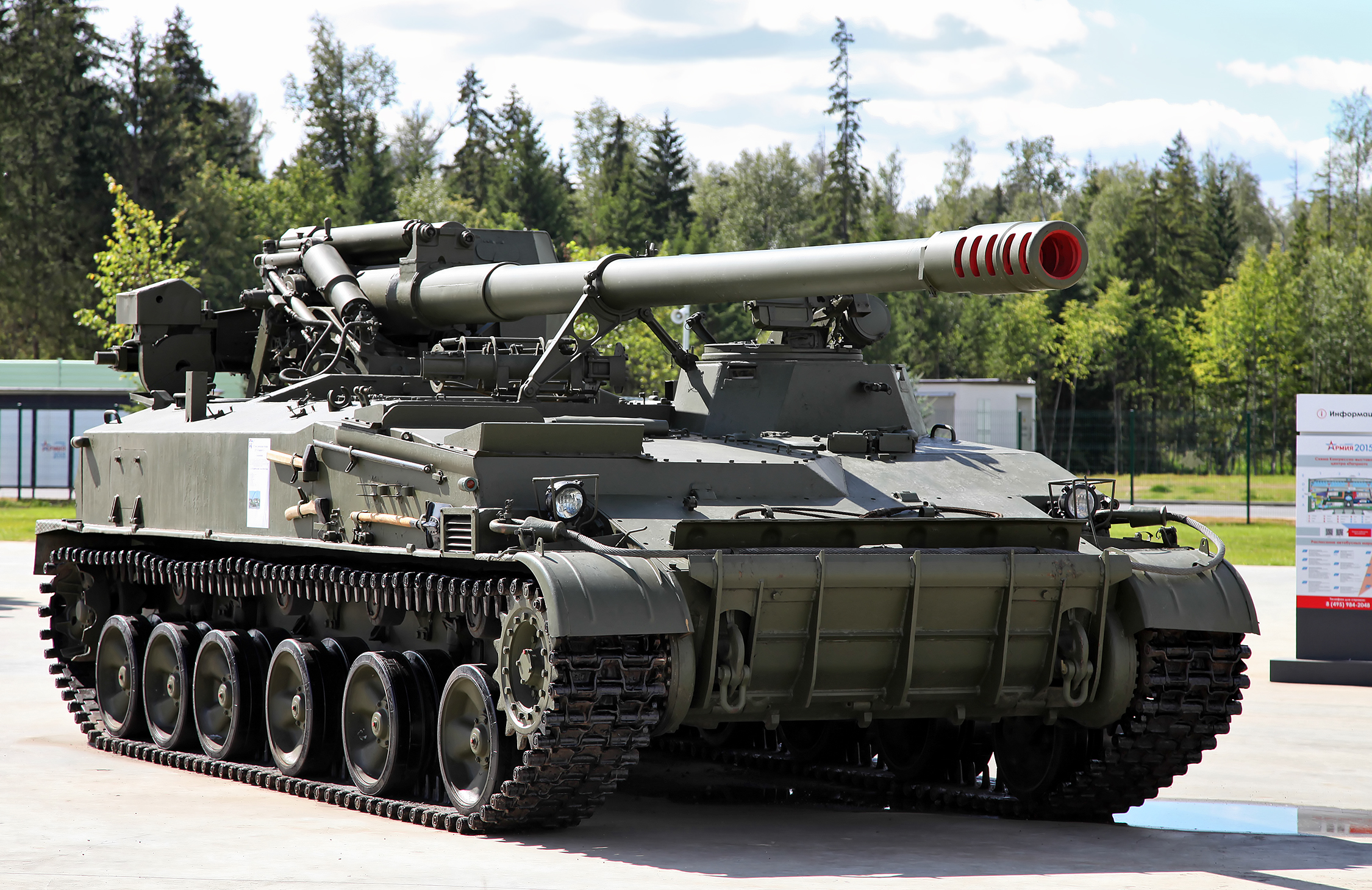 152mm self-propelled gun 2S5 Giatsint-S